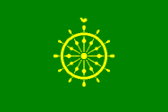 Flag of Ta' Xbiex, Malta